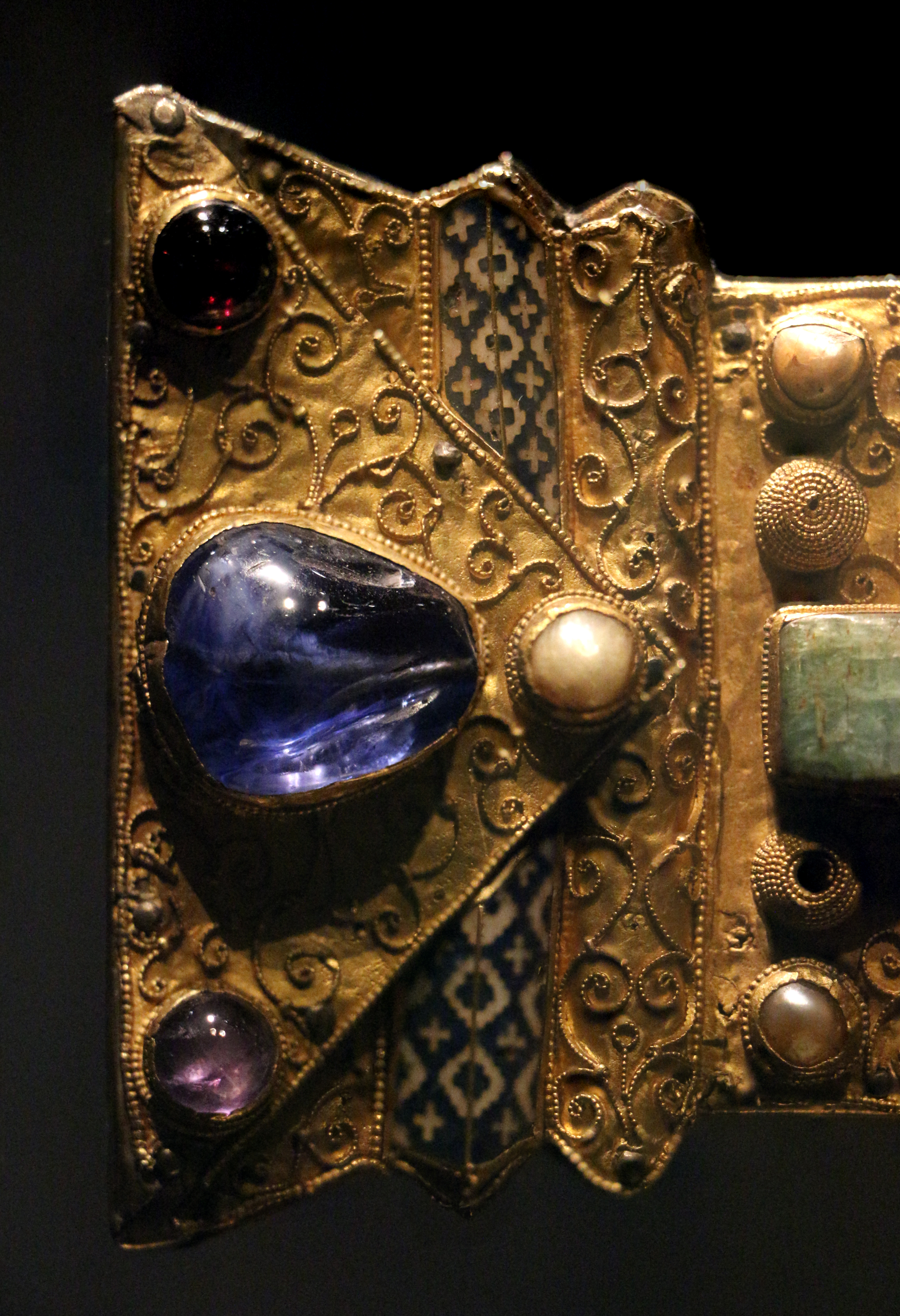 Domschatz, Aachen